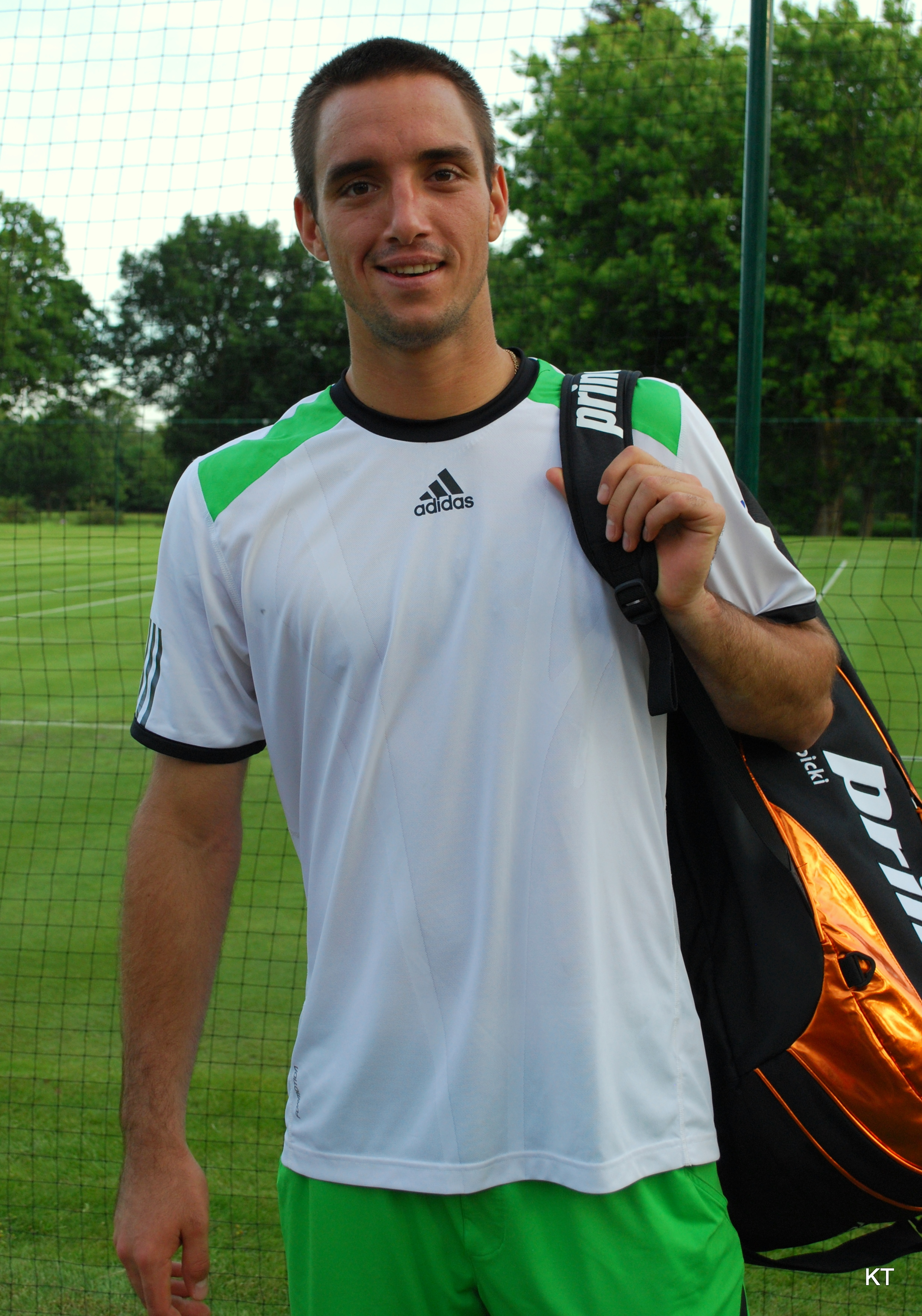 The Boodles, Stoke Park, 2011.